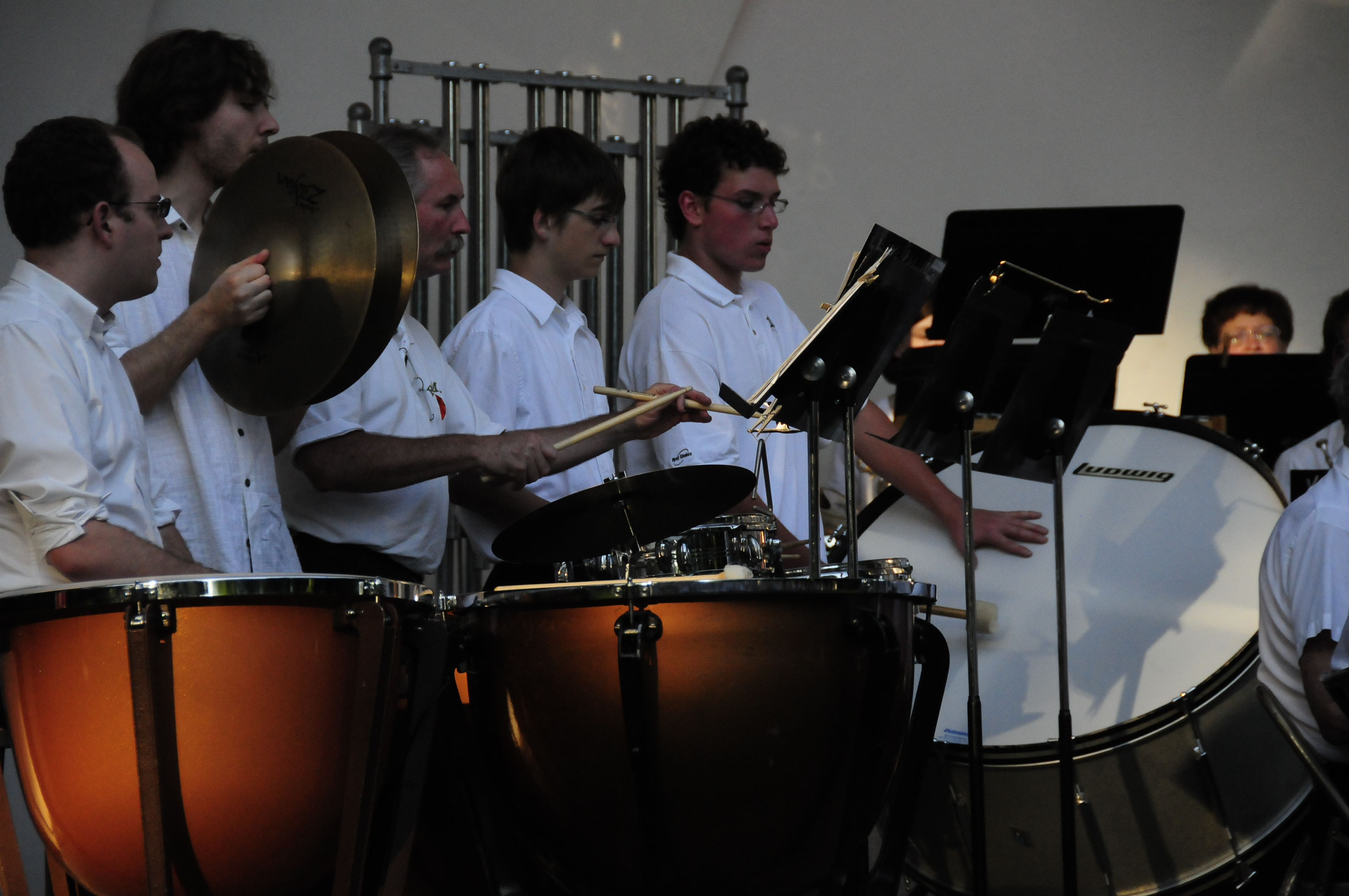 ECMB (ECMB, Eau Claire Municipal Band, Wisconsin) - Percussion Section